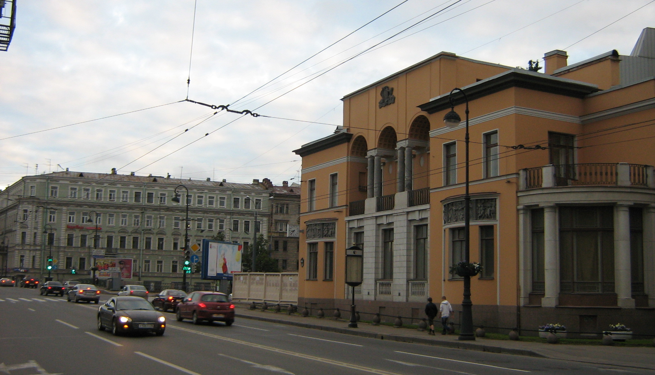 Pokotilova house (Kamennoostrovsky av., 48) in Saint-Petersburg, Russia (architect Marian Lalewicz, 1909). In the background, Kamennoostrovsky, 44/16 (architect A.K.Gorbunov, 1893).